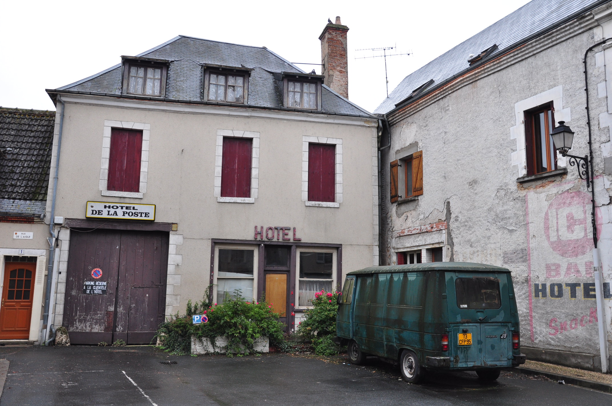 Hotel de la Poste in Vatan (Indre, France).